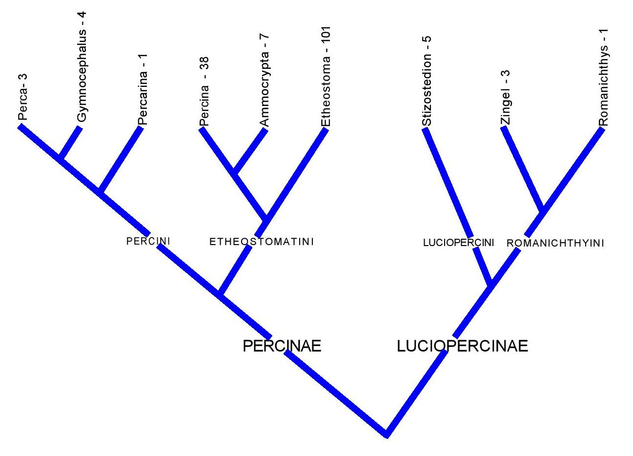 Romanichthys valsanicola. Phylogeny